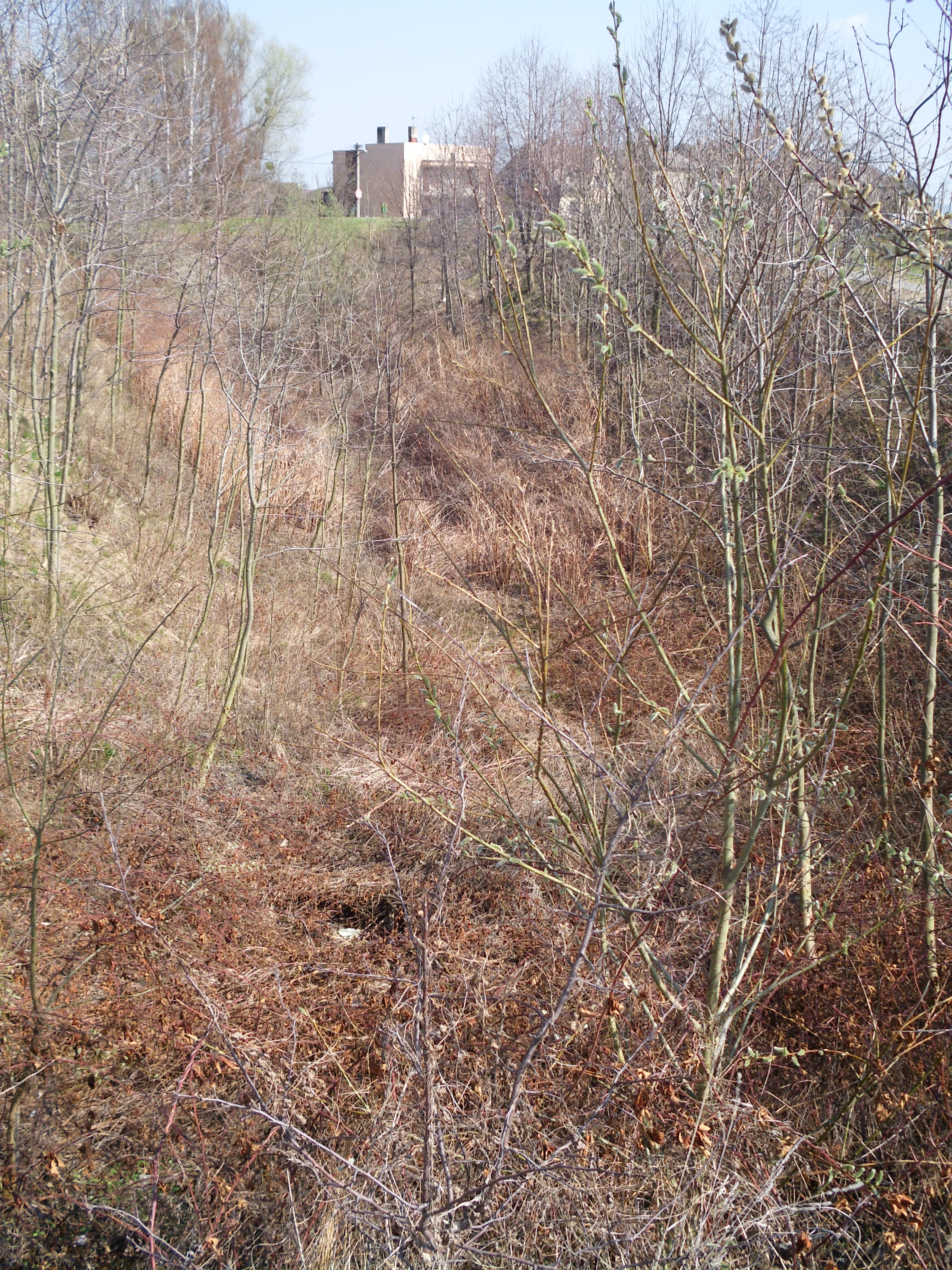 Course of an abandoned railway from Chuchelná, Czech Republic, to Racibórz, Poland, just after Chuchelná train station. This cross-border segment was closed in (or soon after) 1945, and it was fragmented by construction of roads in the following decades.